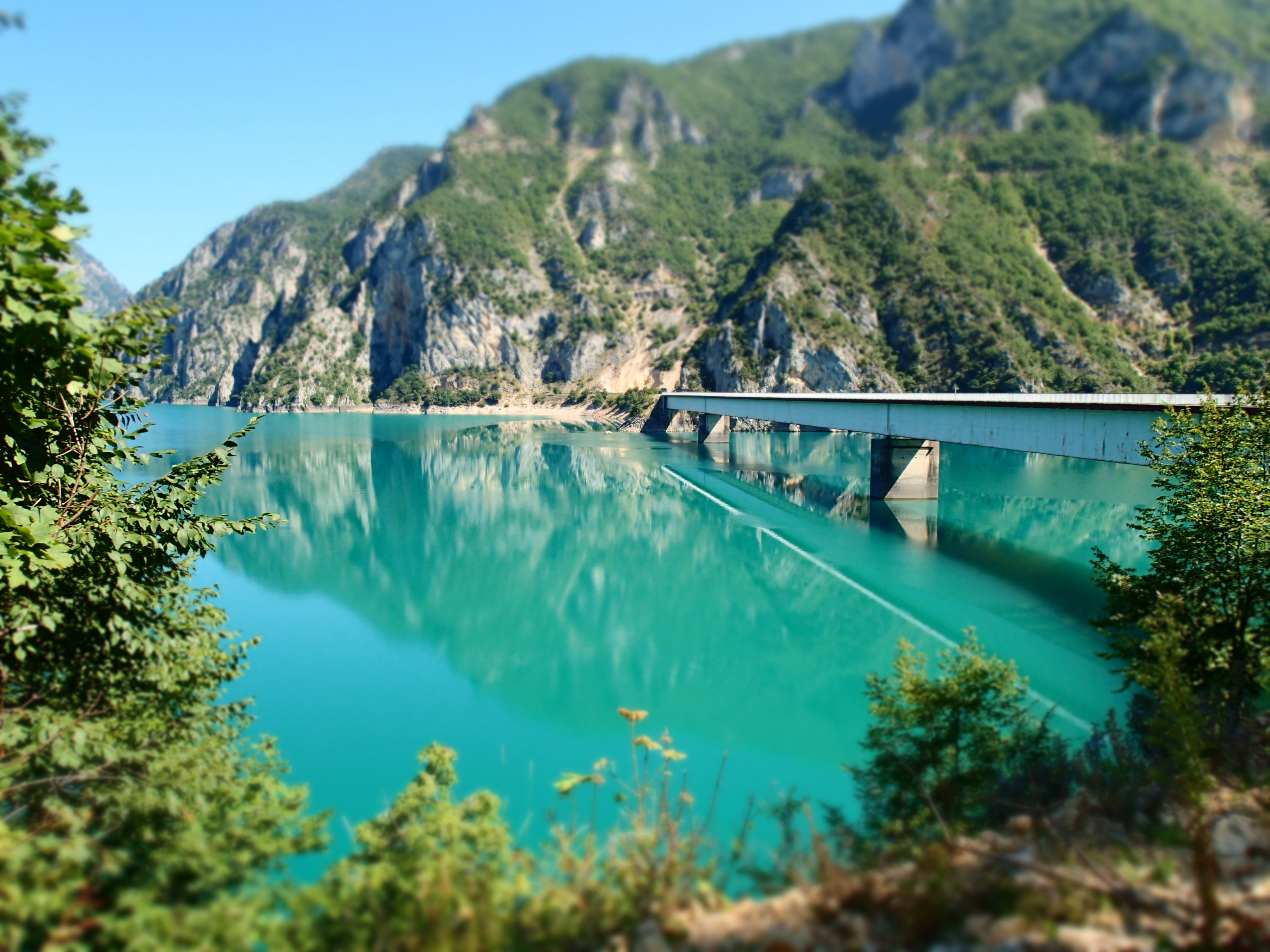 Bridge at Pluzine, Durmitor National Park, Montenegro